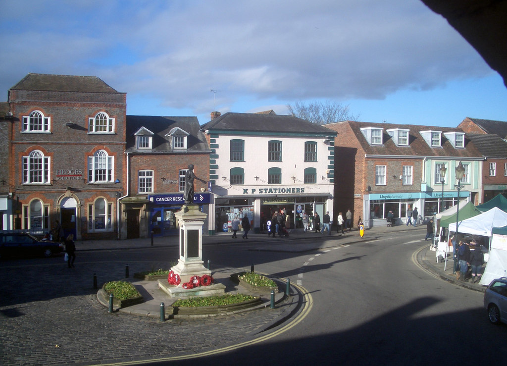 Wallingford Market Place An elevated view taken from a first floor window in the Corn Exchange theatre.